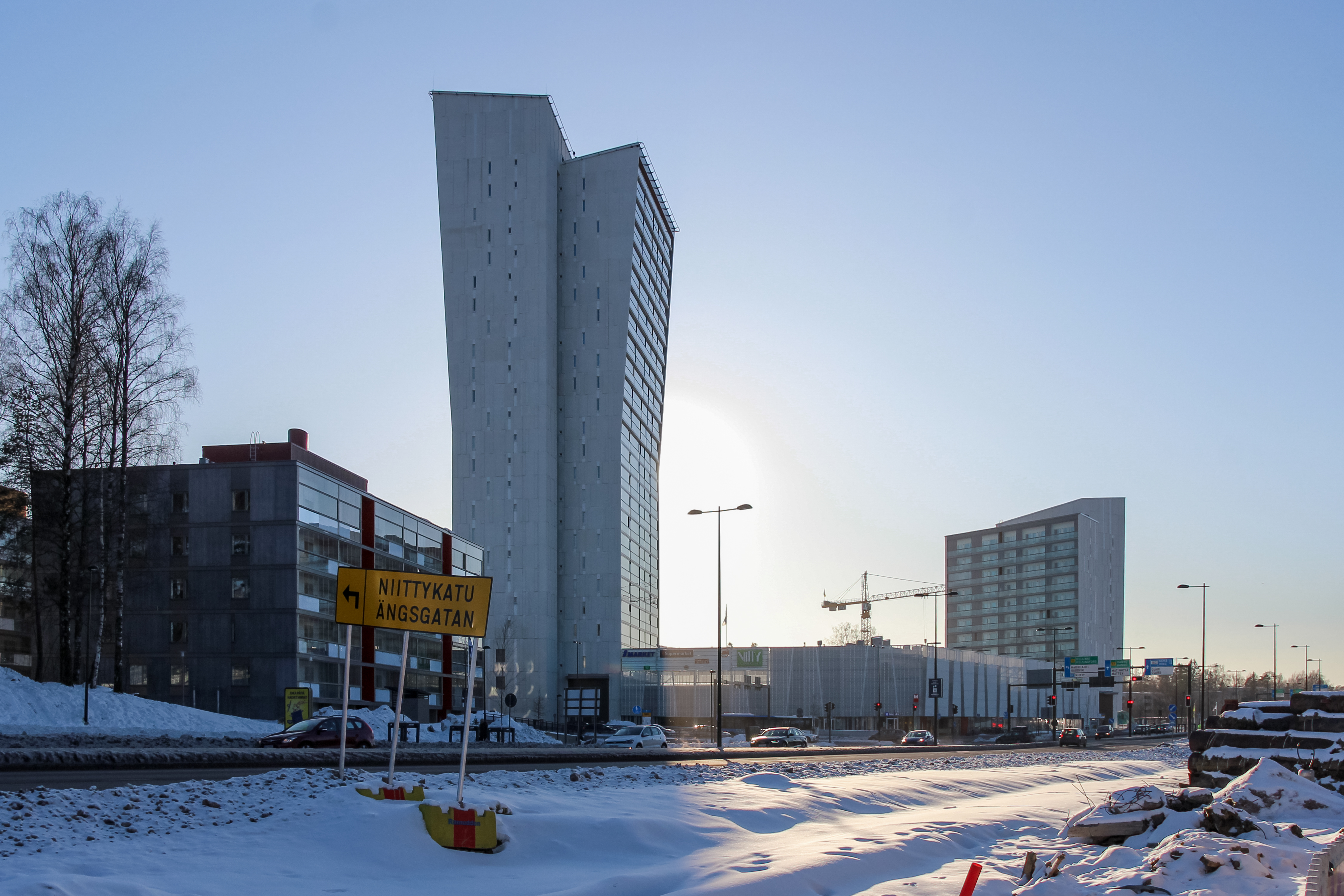 Niittykumpu metro centre in February 2018. The underground Niittykumpu metro station, 27-story Niittyhuippu and 12-story Niittytori apartment houses are situated in the metro centre.